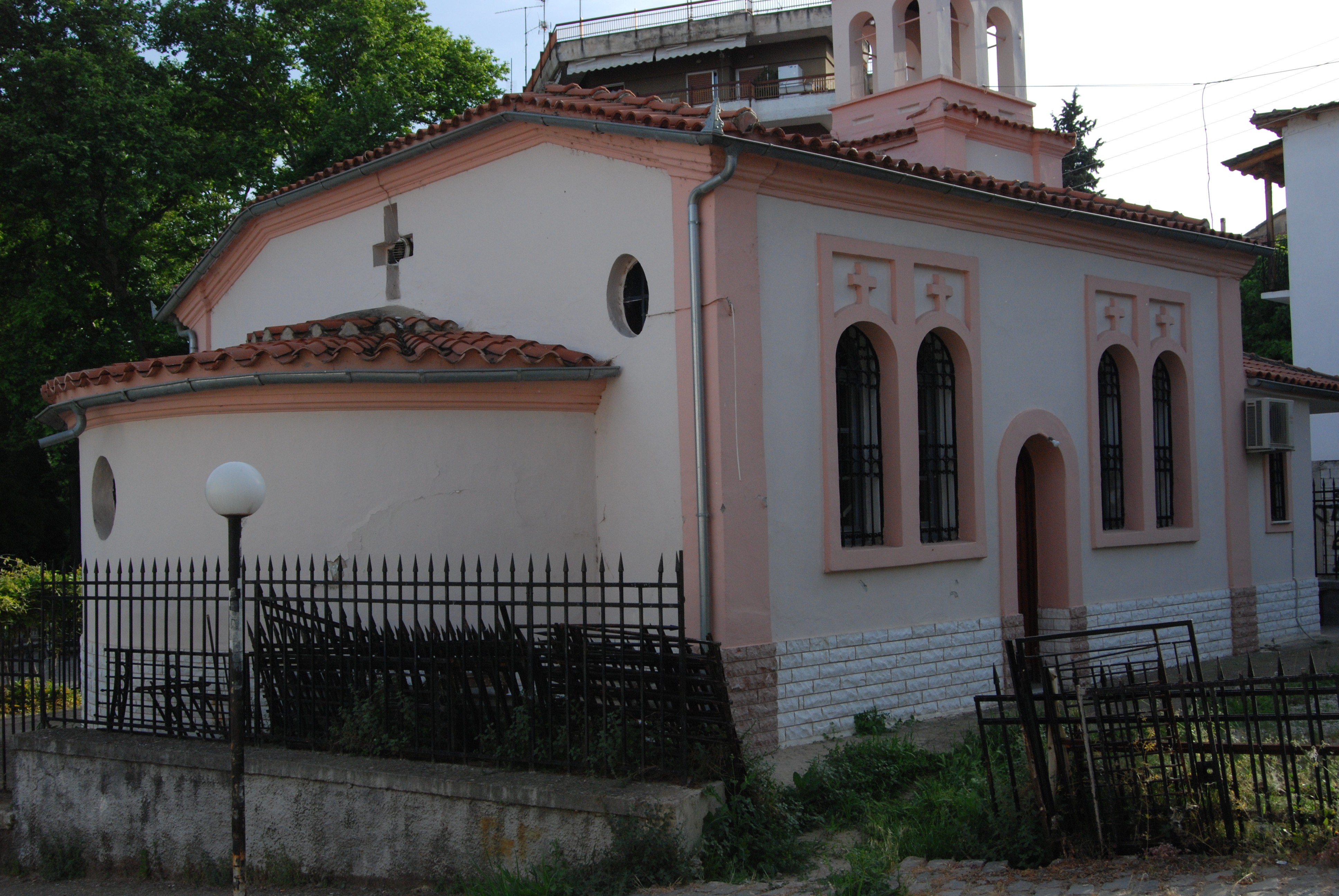 The church of St. Barbara in the town of Drama, Greece